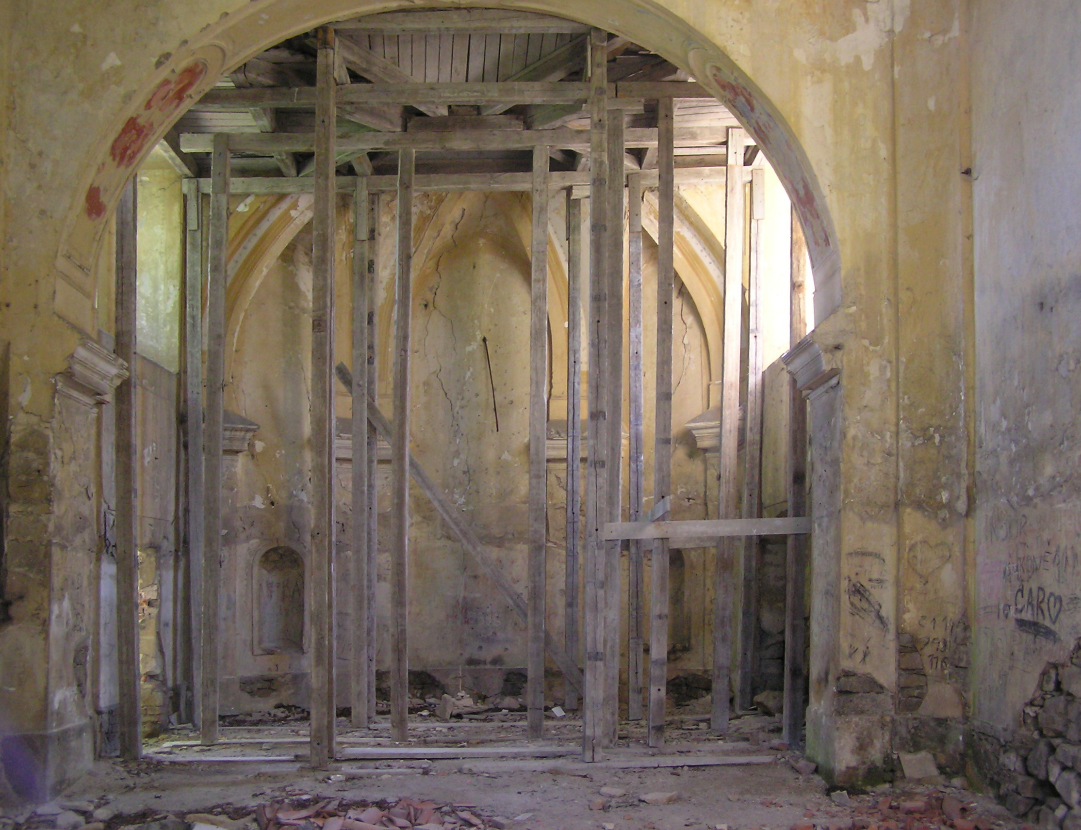 Presbytery of the church in Lahovice